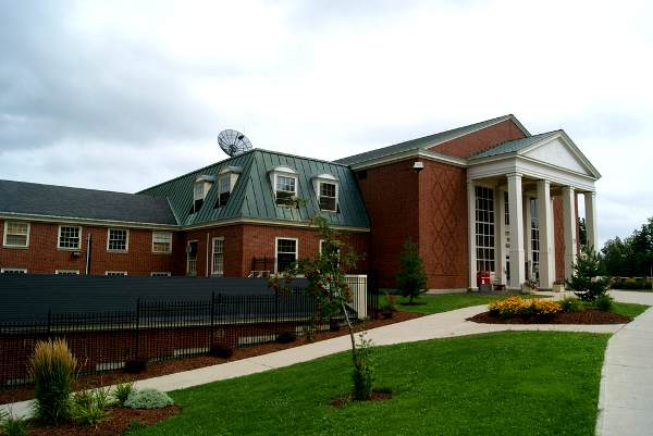 University of New Brunswick student union building in Fredericton.